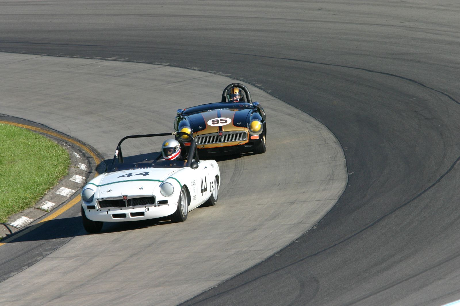 Group 3 racers rounding the toe of the "boot" at Watkins Glen.